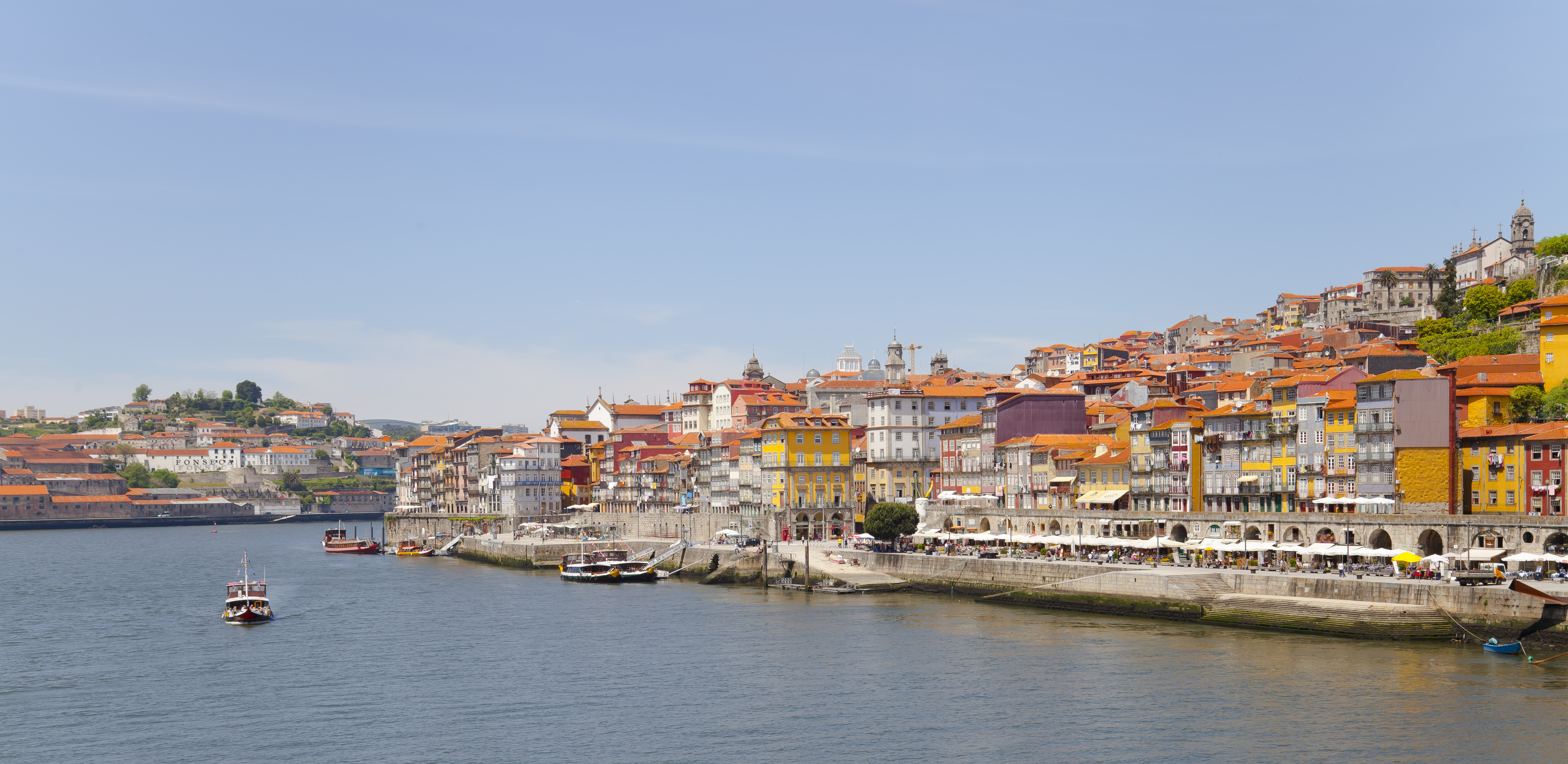 Cais da Ribeira, Porto, Portugal